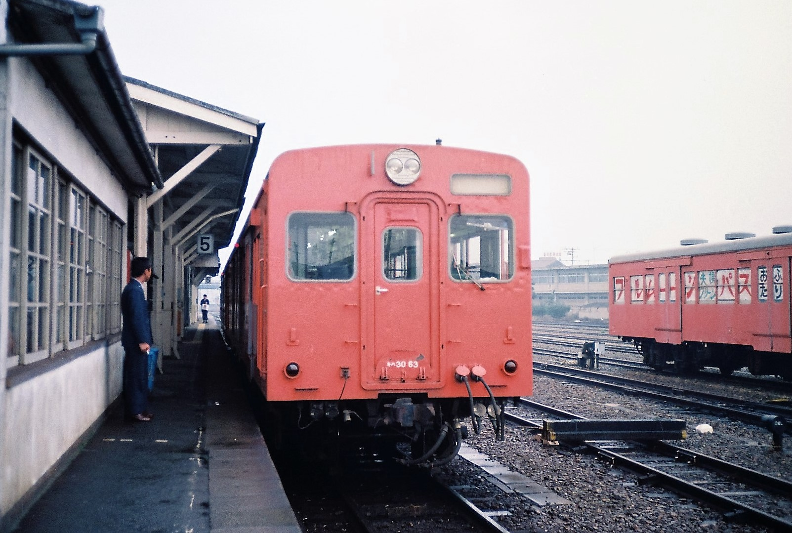 Kakogawa Station